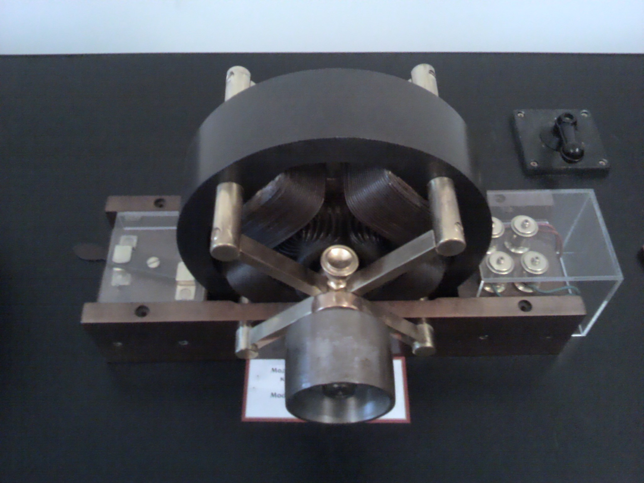 Nikola Tesla's working electric induction motor model used to illustrate the claims in his patent from 1887-1888 (part of Imperial College of Science Technology and Medicine collection in London).[1] This two-phase machine uses two alternating currents to produce a rotating magnetic field, eliminating the need for "brush" contacts that produced sparking in earlier motor designs.